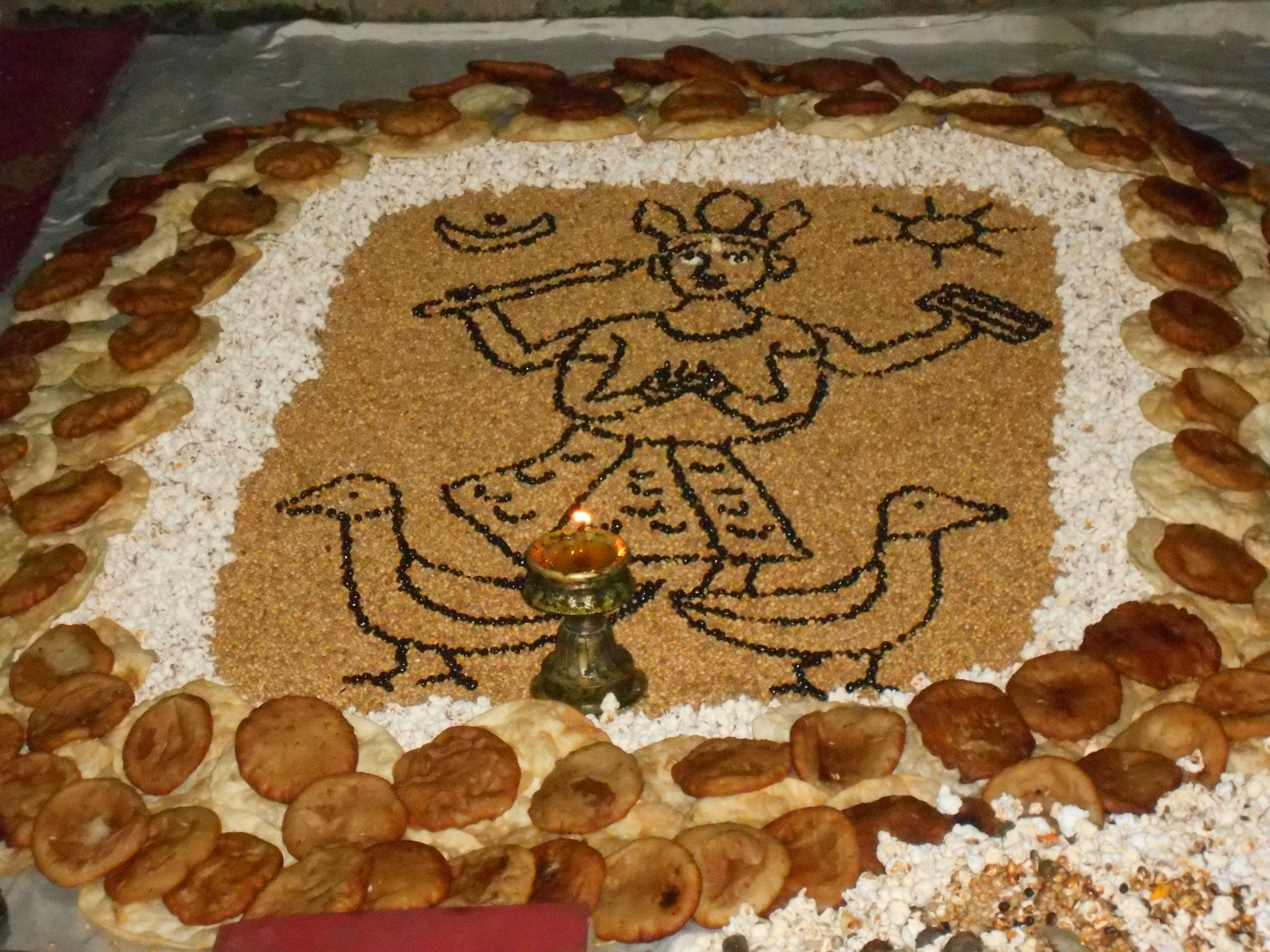 Local celebration during the Newar festival Sakimana Punhi